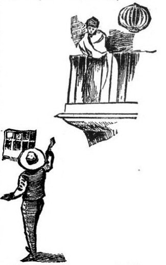 You would naturally wonder how a girl who never leaves her mother's or chaperon's side, who never goes to parties, who is watched like a condemned murderess, would ever get a lover; but notwithstanding all this strictness they number less old maids and more admirers than their sisters in the States. Perhaps while out driving, at the theater or bull-fights, they see a man they think they will like. He is similarly impressed. He follows his new-found one home, and she knows enough to be on the balcony awaiting his arrival with the shades of night. He may play the bear with her for a year and she not know his name. He has the advantage, for he can find out everything about her family, and thereby determine whether she is a desirable bride or not.